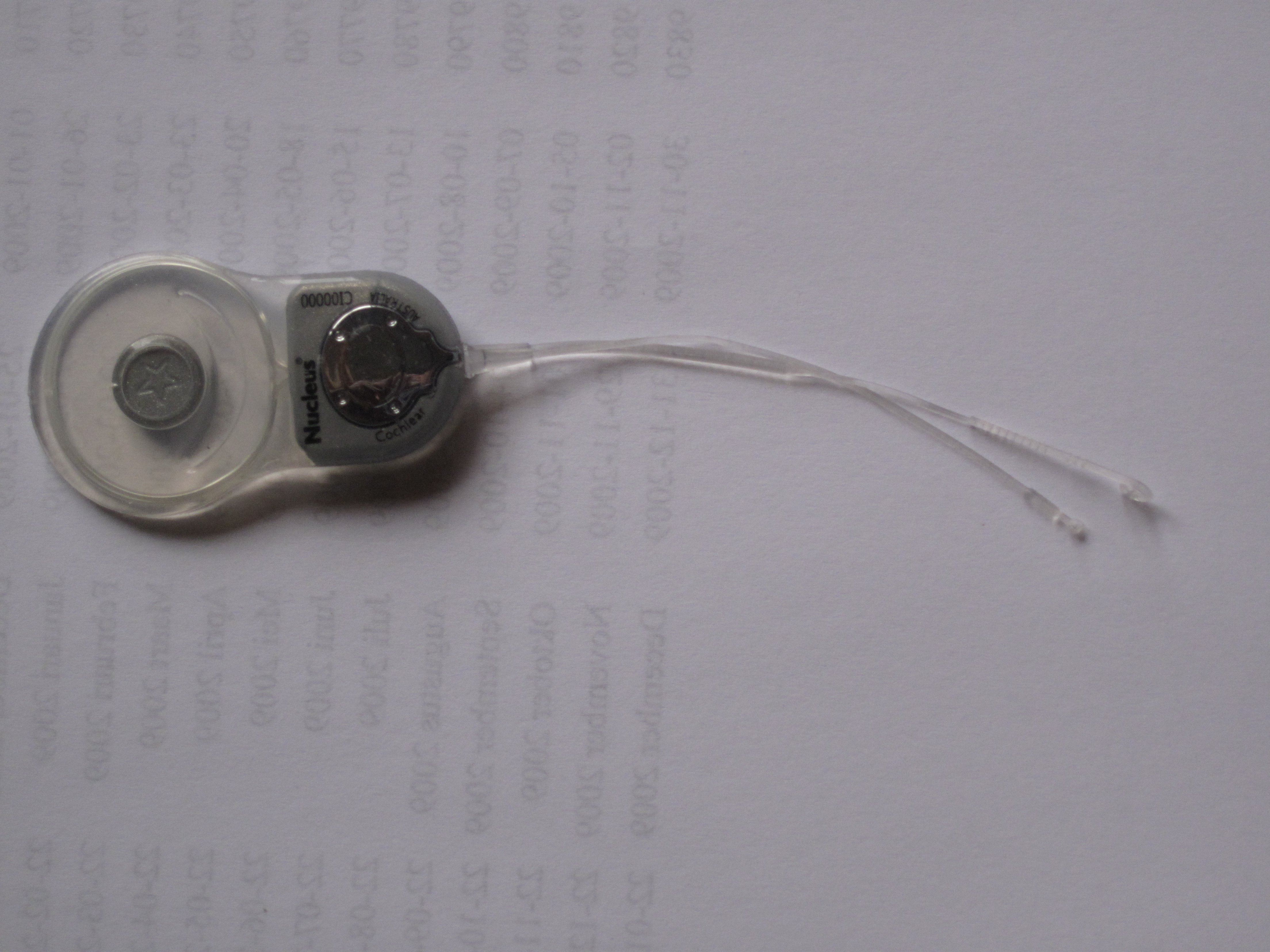 A internal part of a cochlear implants